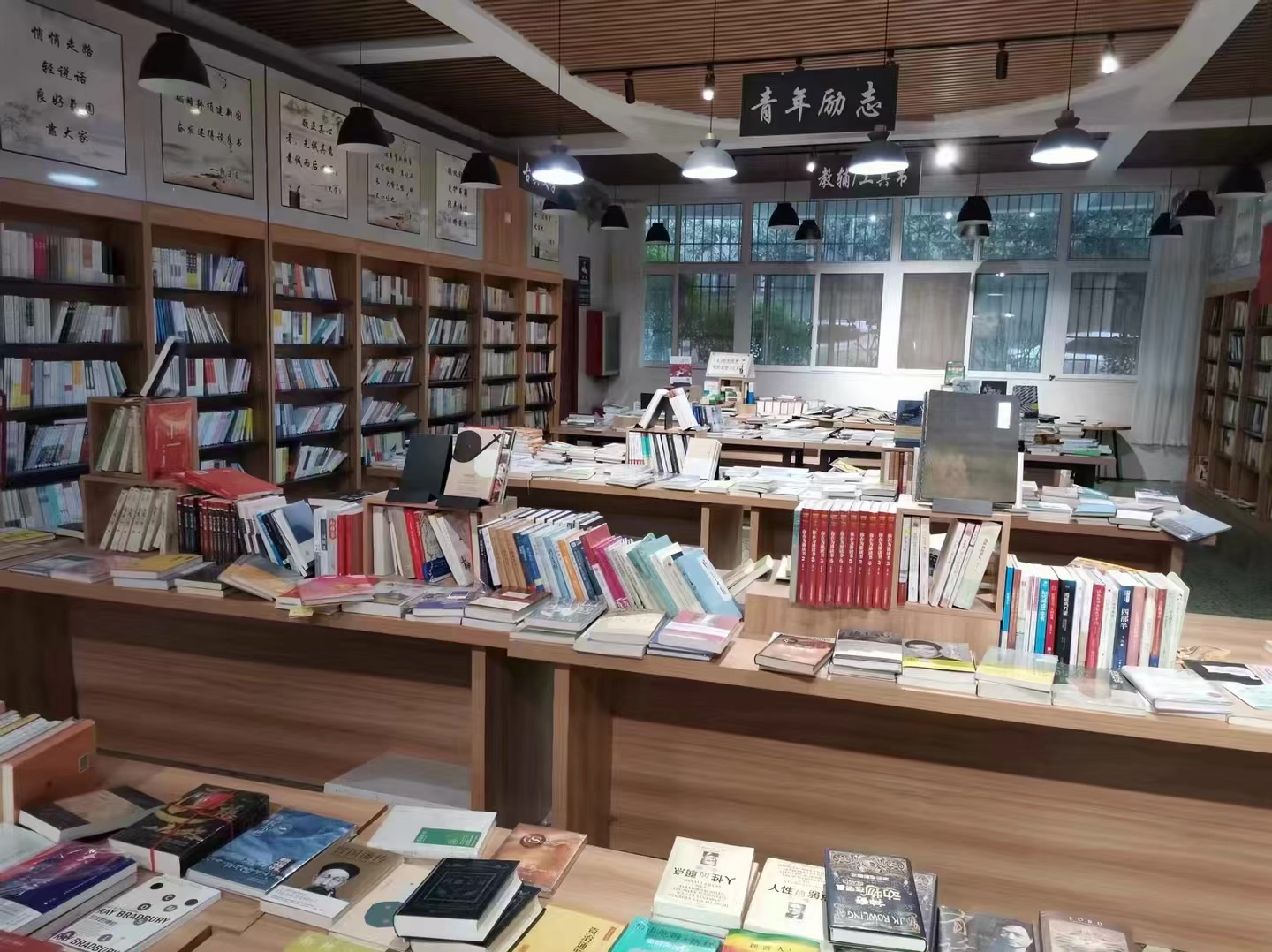 校园书店（北校区）